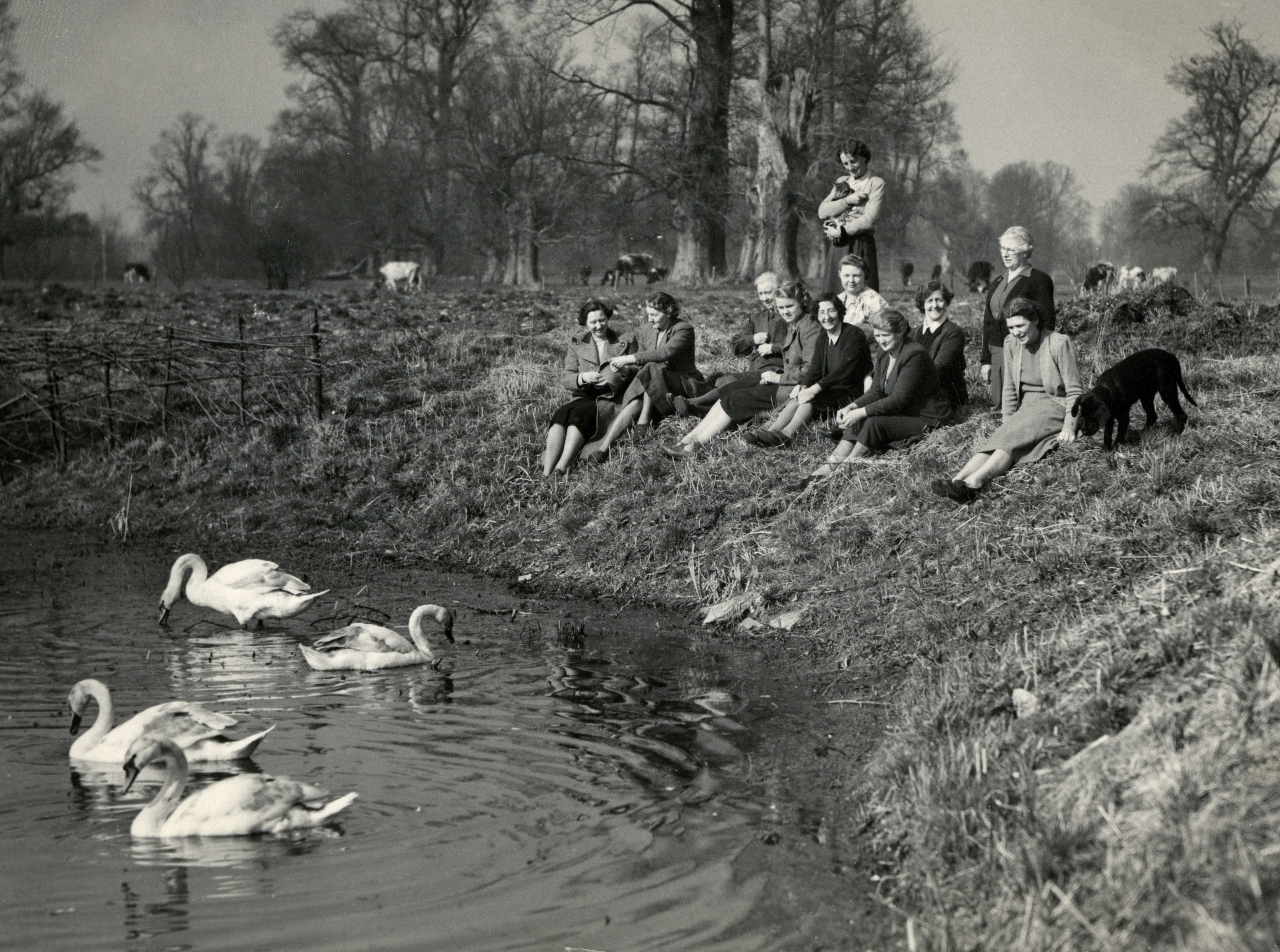 5FWI/B/2/2/21/004 Photograph, printed paper, monochrome, lake with four swans watched by group of women, including Miss Christmas and dog Sam, seated on bank